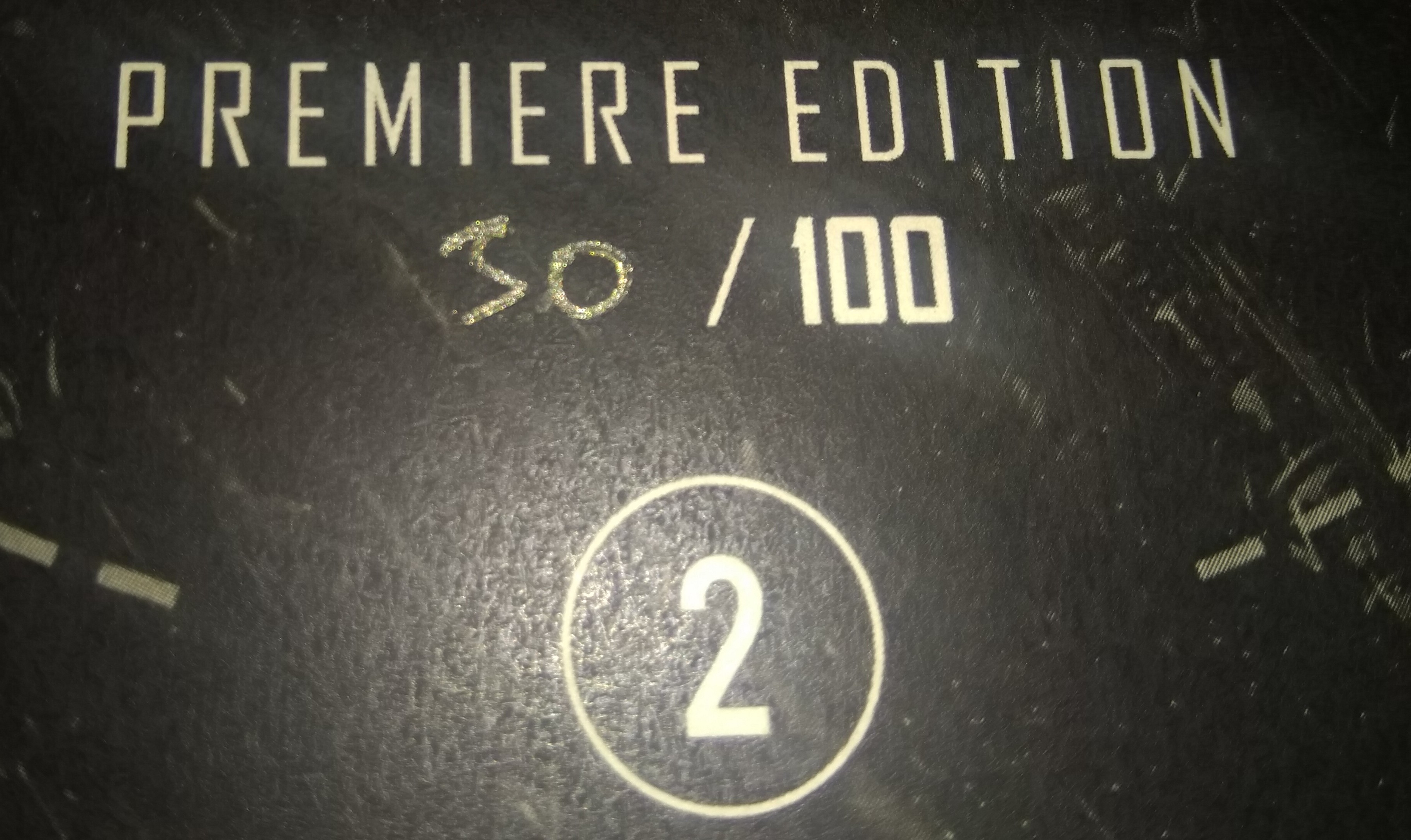 Example of a limited-edition book marking